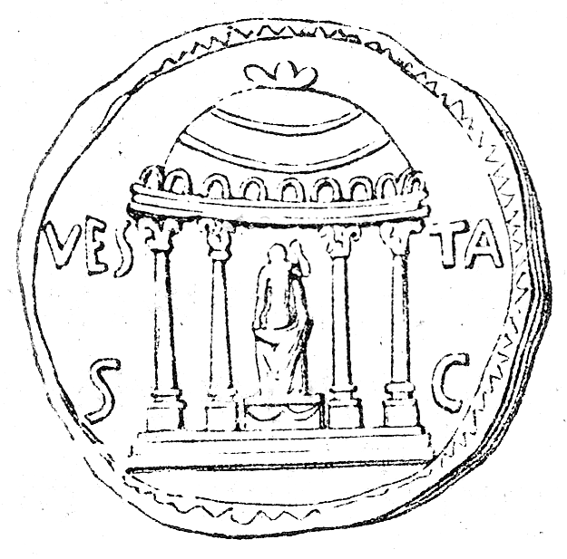 Illustration from "Illustrerad verldshistoria utgifven av E. Wallis. volume II": A tempel of Vesta. From a coin.